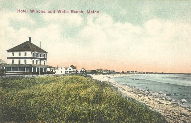 Hotel Winona and Wells Beach, ME; from a 1908 postcard.